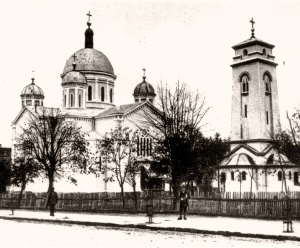 Description New Church in Kragujevac